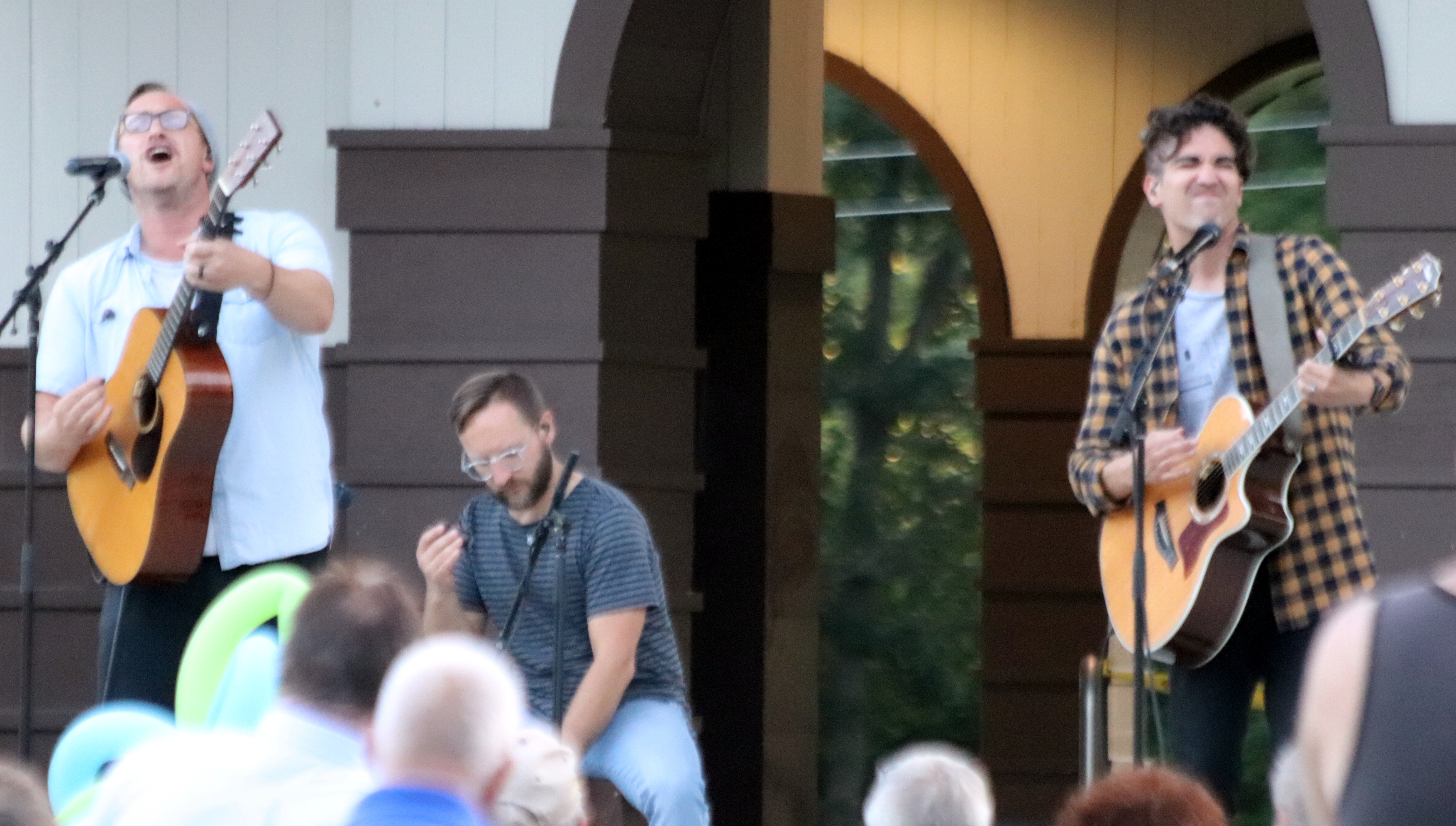 Sanctus Real performing for listeners of The Family Christian Radio's 50th anniversary celebration at Pierce Park (Appleton, Wisconsin).